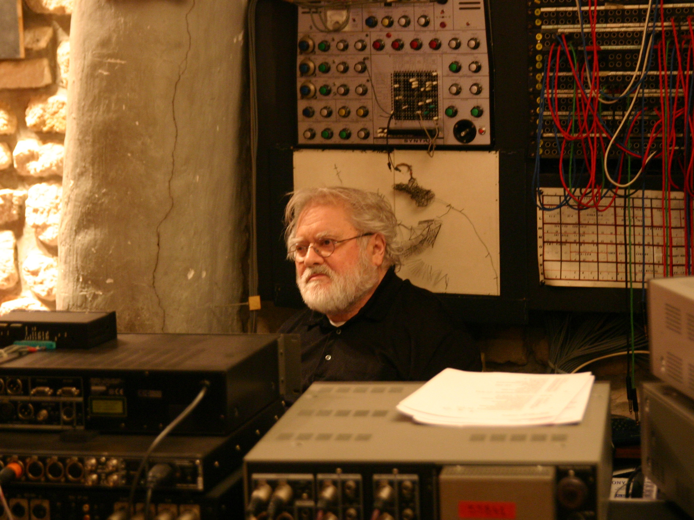 Pierre Henry at home